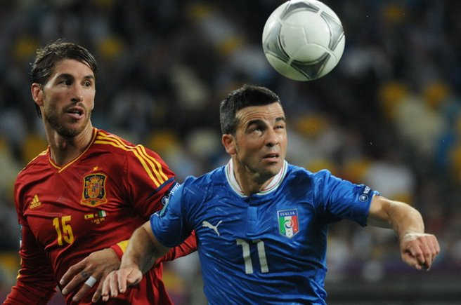 Sergio Ramos and Antonio Di Natale at Euro 2012 final Spain-Italy